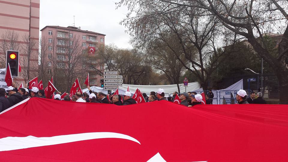 Ceremonies street, the bomb attack in Ankara, 2016. An attack by a suicide bomber.